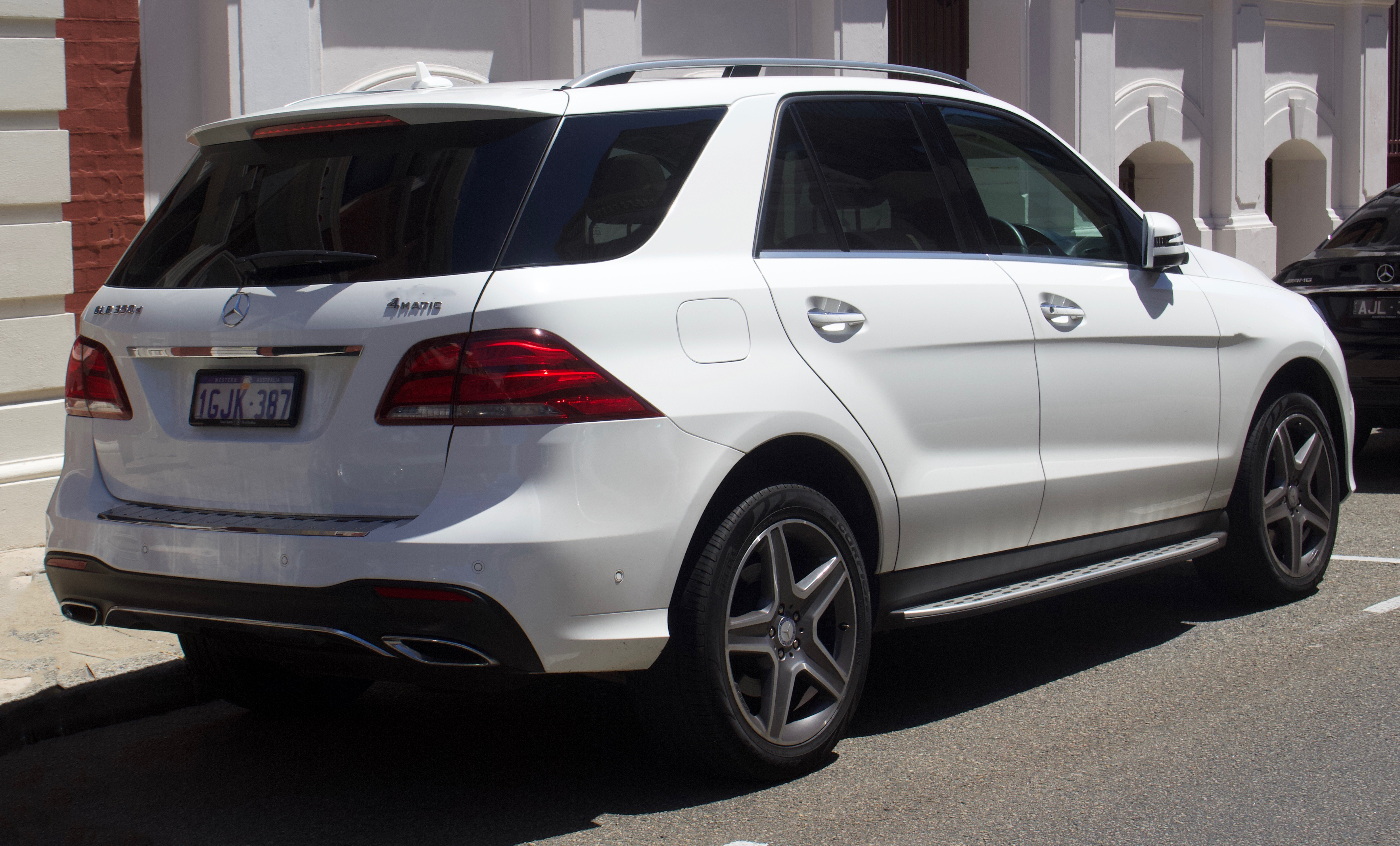 2017 Mercedes-Benz GLE 350d (W 166) wagon. Photographed in Fremantle, Western Australia, Australia.